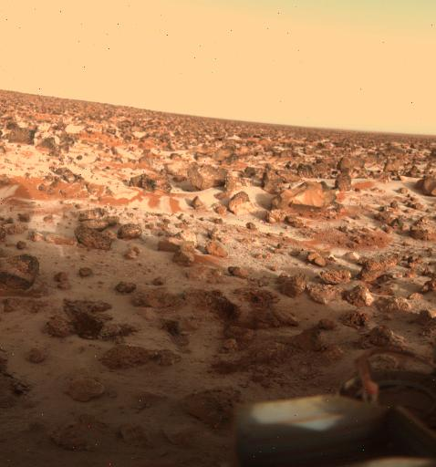 Original caption This high-resolution color photo of the surface of Mars was taken by Viking Lander 2 at its Utopia Planitia landing site on May 18, 1979, and relayed to Earth by Orbiter 1 on June 7. It shows a thin coating of water ice on the rocks and soil. The time the frost appeared corresponds almost exactly with the buildup of frost one Martian year (23 Earth months) ago. Then it remained on the surface for about 100 days. Scientists believe dust particles in the atmosphere pick up bits of solid water. That combination is not heavy enough to settle to the ground. But carbon dioxide, which makes up 95 percent of the Martian atmosphere, freezes and adheres to the particles and they become heavy enough to sink. Warmed by the Sun, the surface evaporates the carbon dioxide and returns it to the atmosphere, leaving behind the water and dust. The ice seen in this picture, like that which formed one Martian year ago, is extremely thin, perhaps no more than one-thousandth of an inch thick.